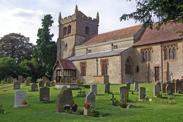 Frankton Church St Nicholas's church dates back to the 13th century, although it was rebuilt in the 14th century.